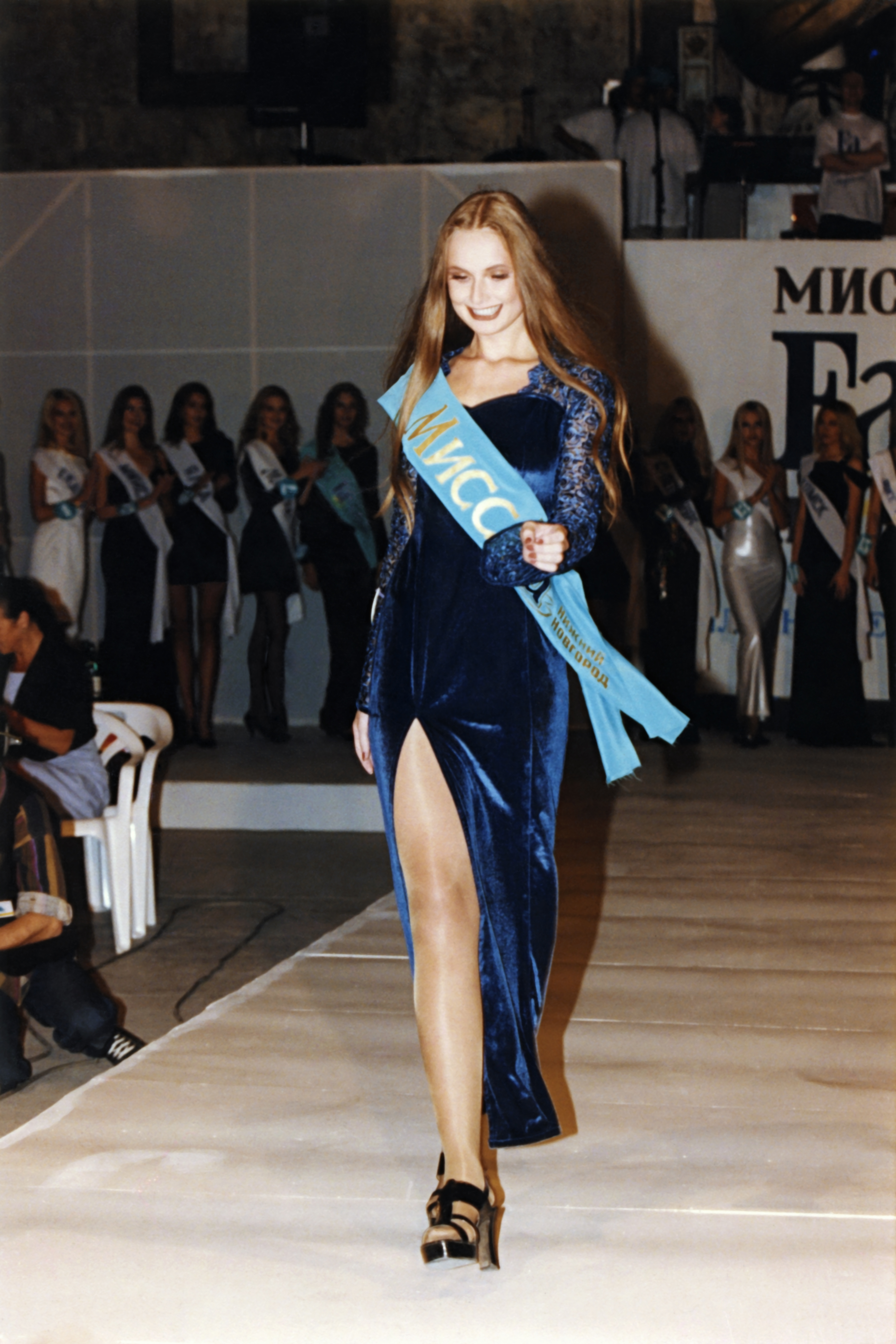 Elena Khlibko is Miss Fa Nizhny Novgorod Beauty Queen 1997